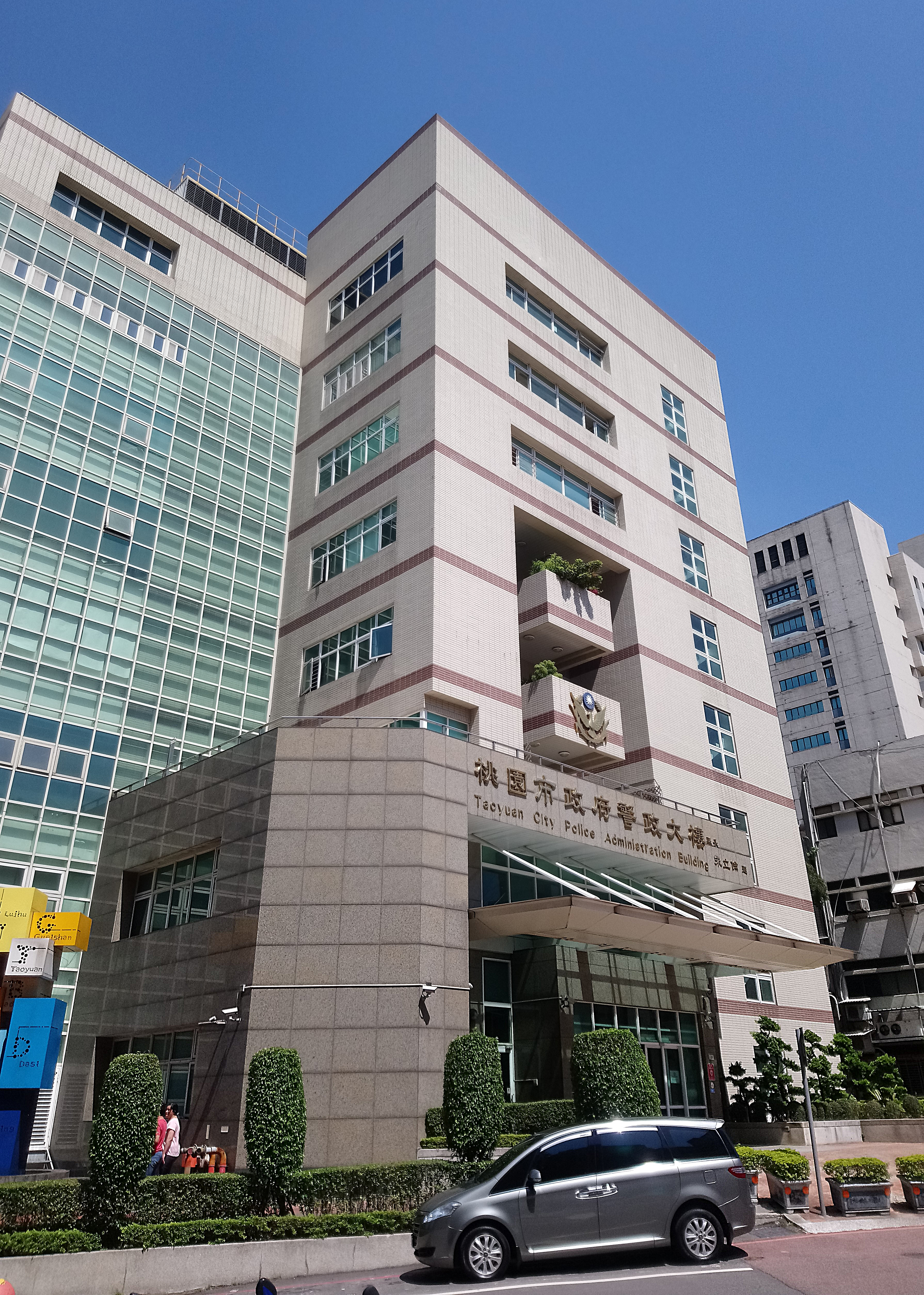 Taoyuan City Police Administration Building.